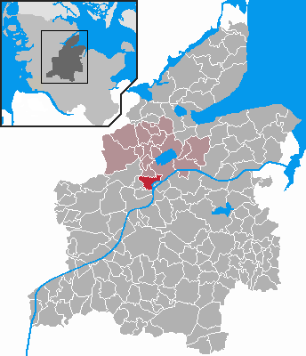 Locator maps of municipalities in Schleswig-Holstein - District Rendsburg-Eckernförde